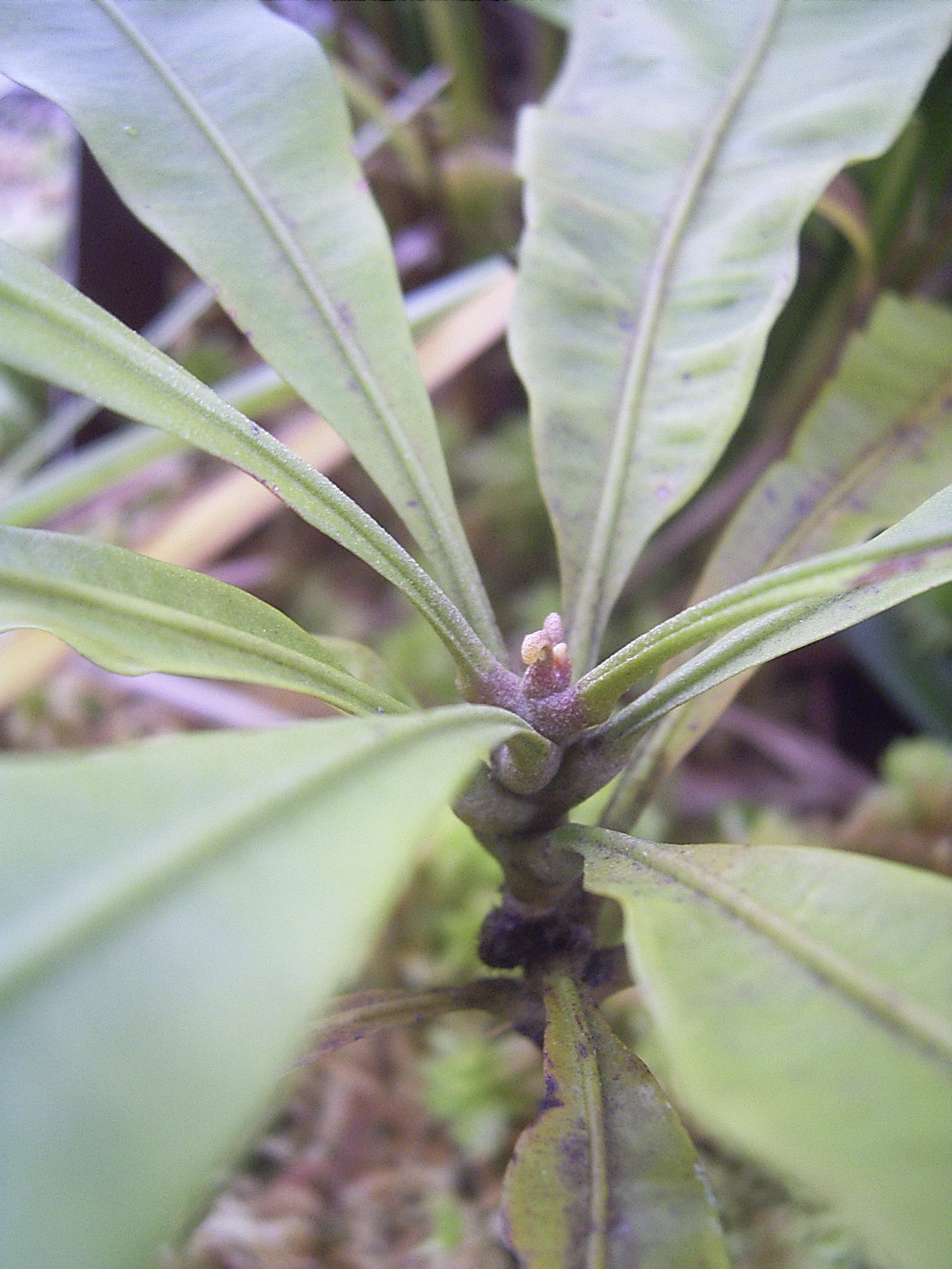 Shoot Triphyophyllum peltatum